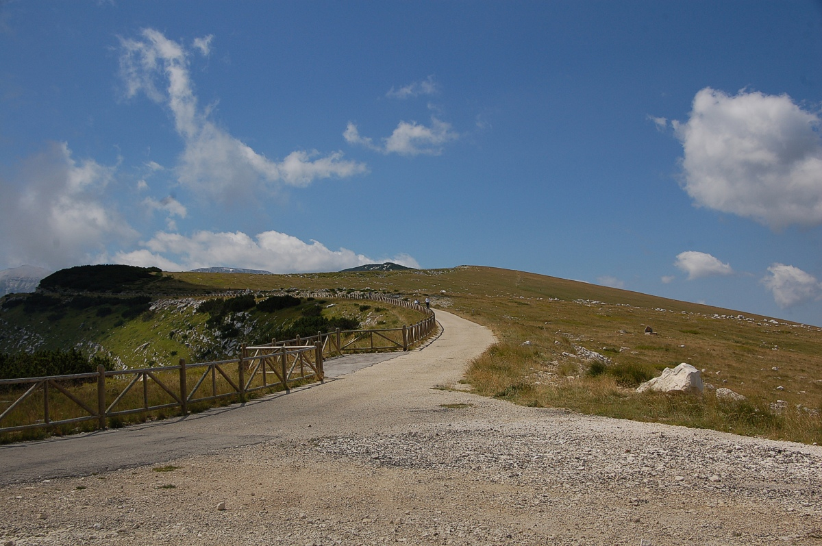 Blockhaus (Abruzzo) Majella National Park